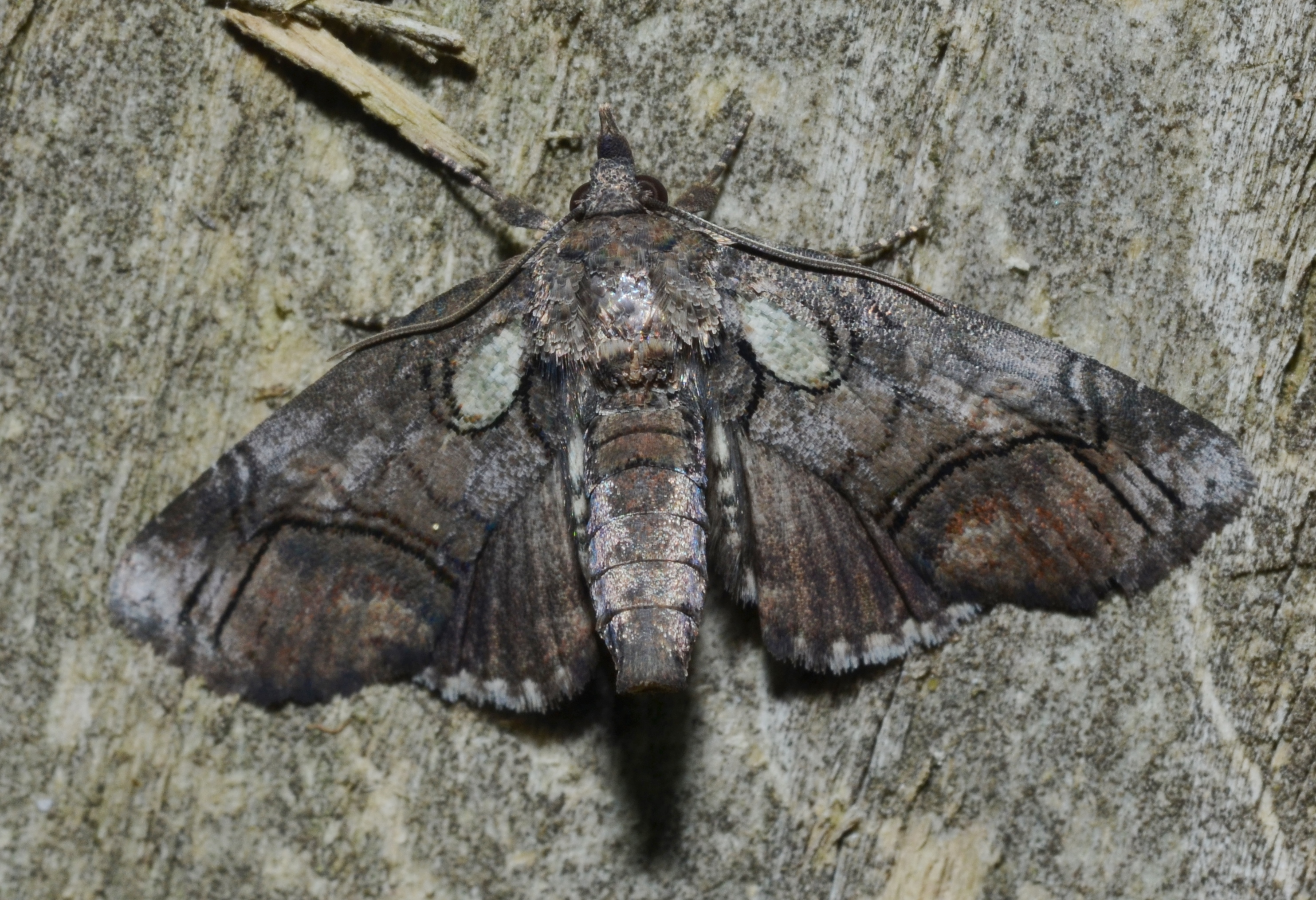 Cuivre River State Park 5/6/2015 ID thanks to Paul Dennehy